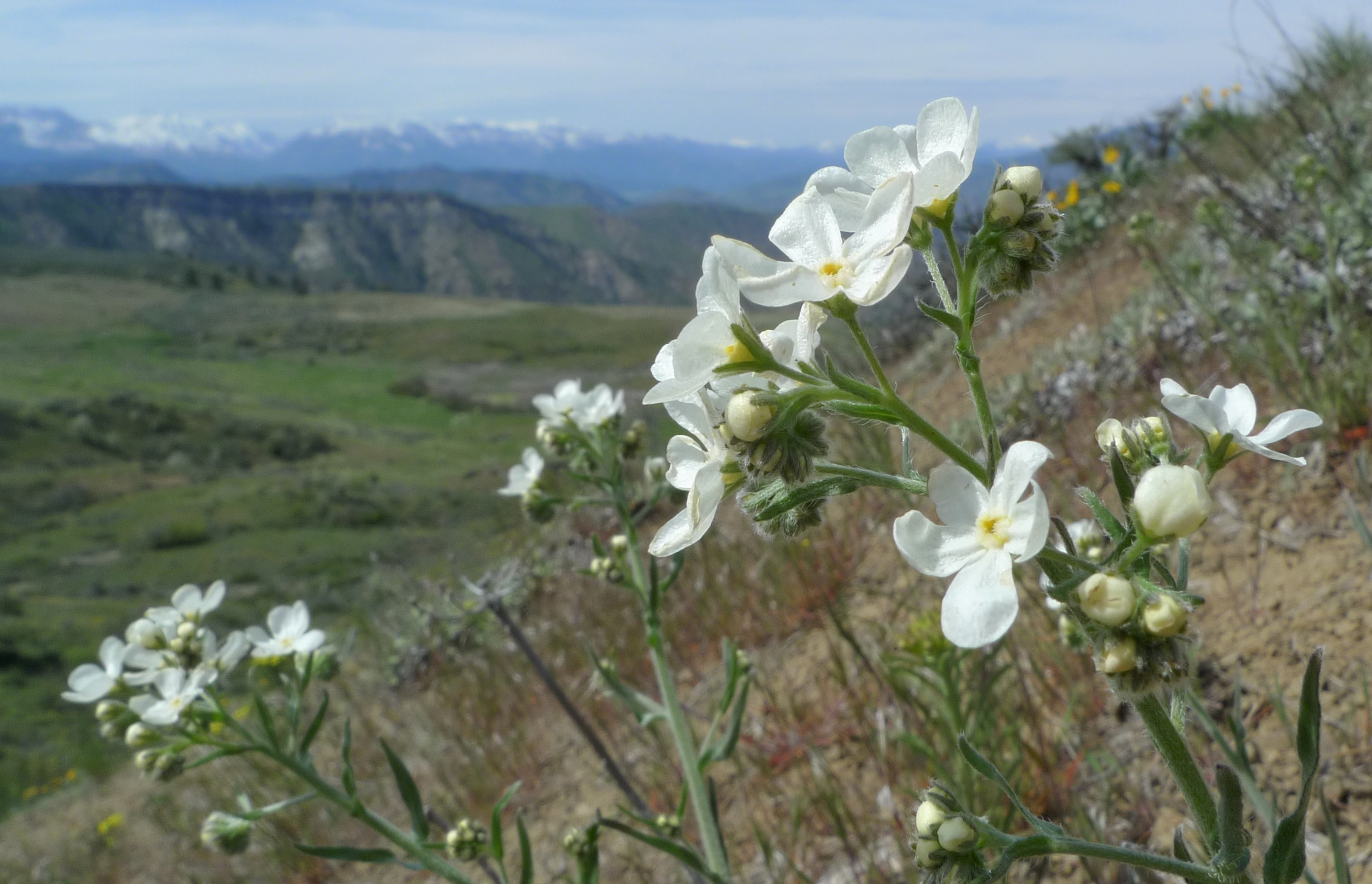 Hackelia diffusa flowering near Horselake, Chelan County Washington